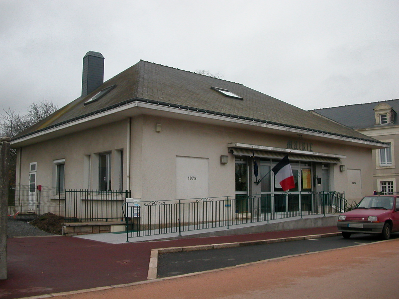 Town hall of Anetz